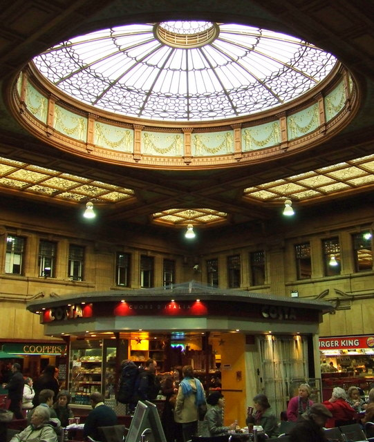 The old booking hall Now serving fast food instead of tickets.